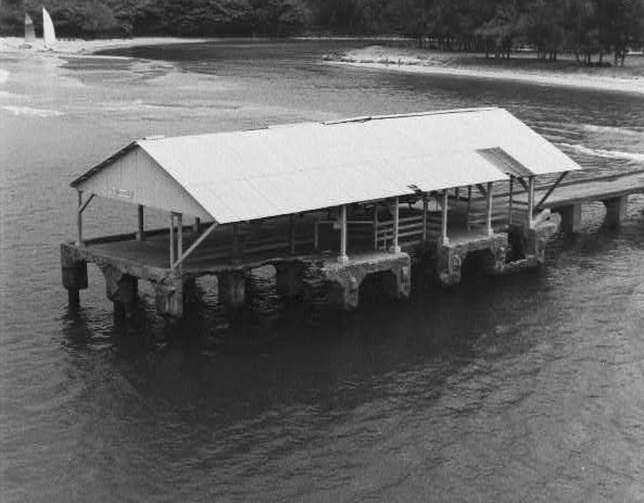 Hanalei Pier, Hanalei Bay off Weke Road, Hanalei (Kauai County, Hawaii) cropped VIEW OF PIER SHED, FACING NORTHWEST This image or media file contains material based on a work of a National Park Service employee, created as part of that person's official duties. As a work of the U.S. federal government, such work is in the public domain in the United States. See the NPS website and NPS copyright policy for more information. Creator: U.S. Department of the Interior, National Park Service, Historic American Engineering Record. Survey number HAER Source: U.S. Library of Congress, Prints and Photographs Division, "Built in America" Collection. Copyright: "The original measured drawings and most of the photographs and data pages in HABS/HAER/HALS were created for the U.S. Government and are considered to be in the public domain." Category:Historic American Engineering Record